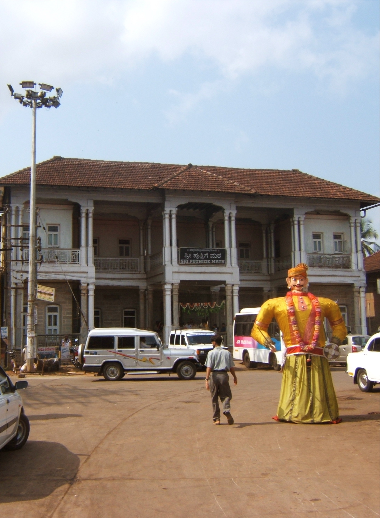 Udupi Sri Puthige Math